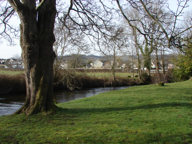 River Bovey, Bovey Tracey View across the River Bovey from the back of the Riverside Inn car park